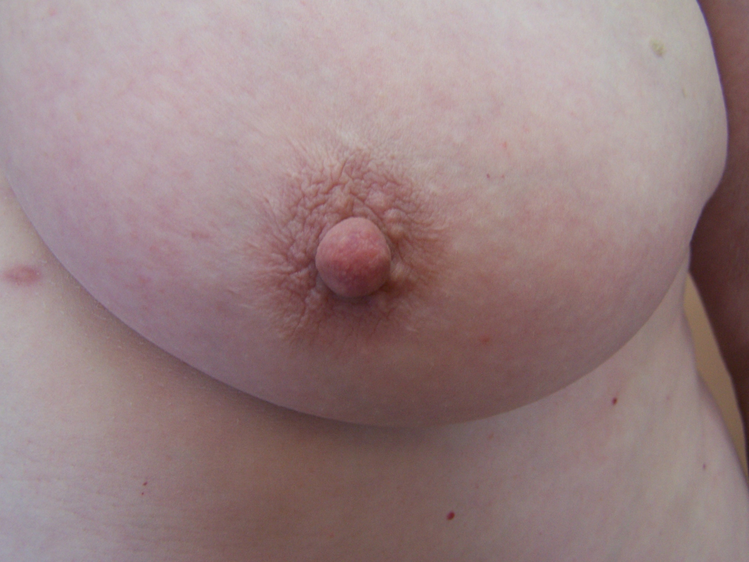 Her left breast